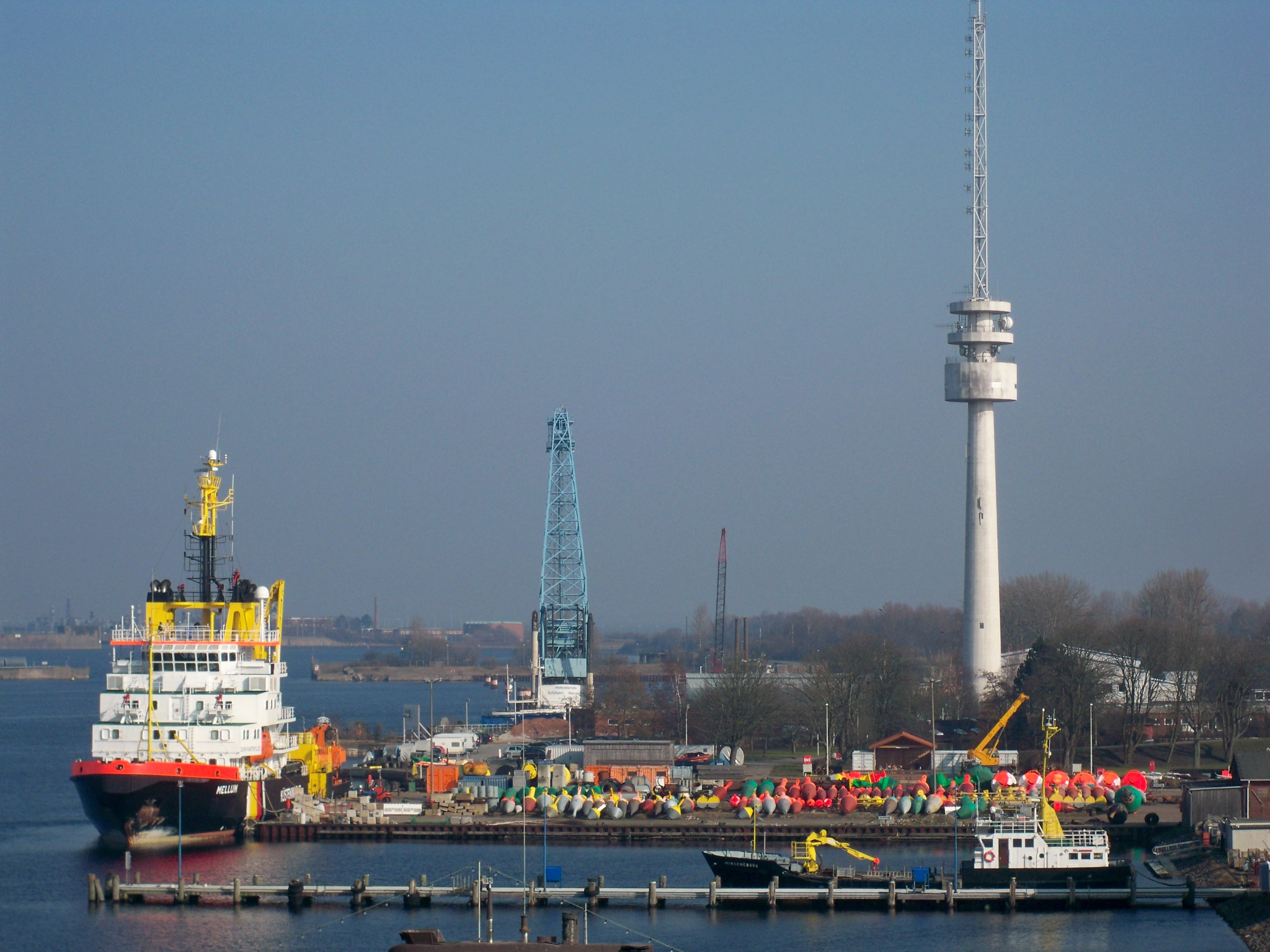 Buoy depot Wilhelmshaven with Mellum and Minseneroog alongside